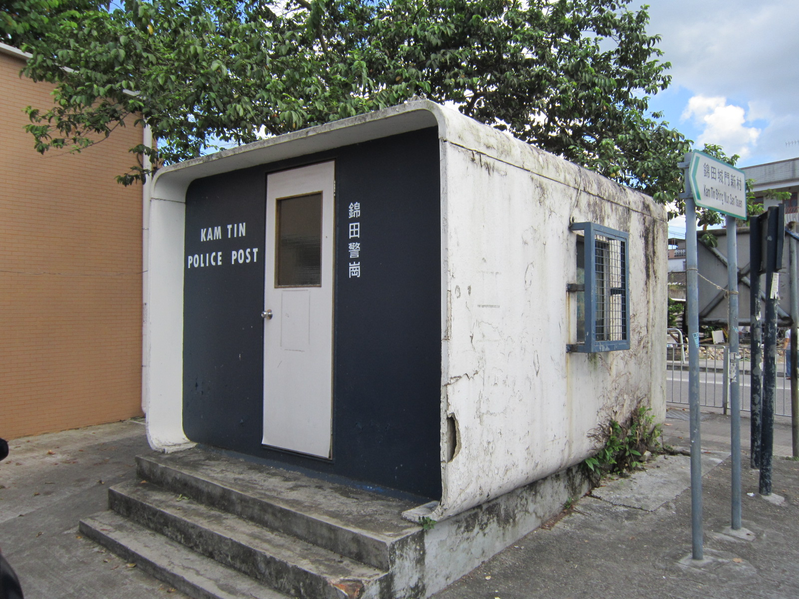 Kam Tin Police Post